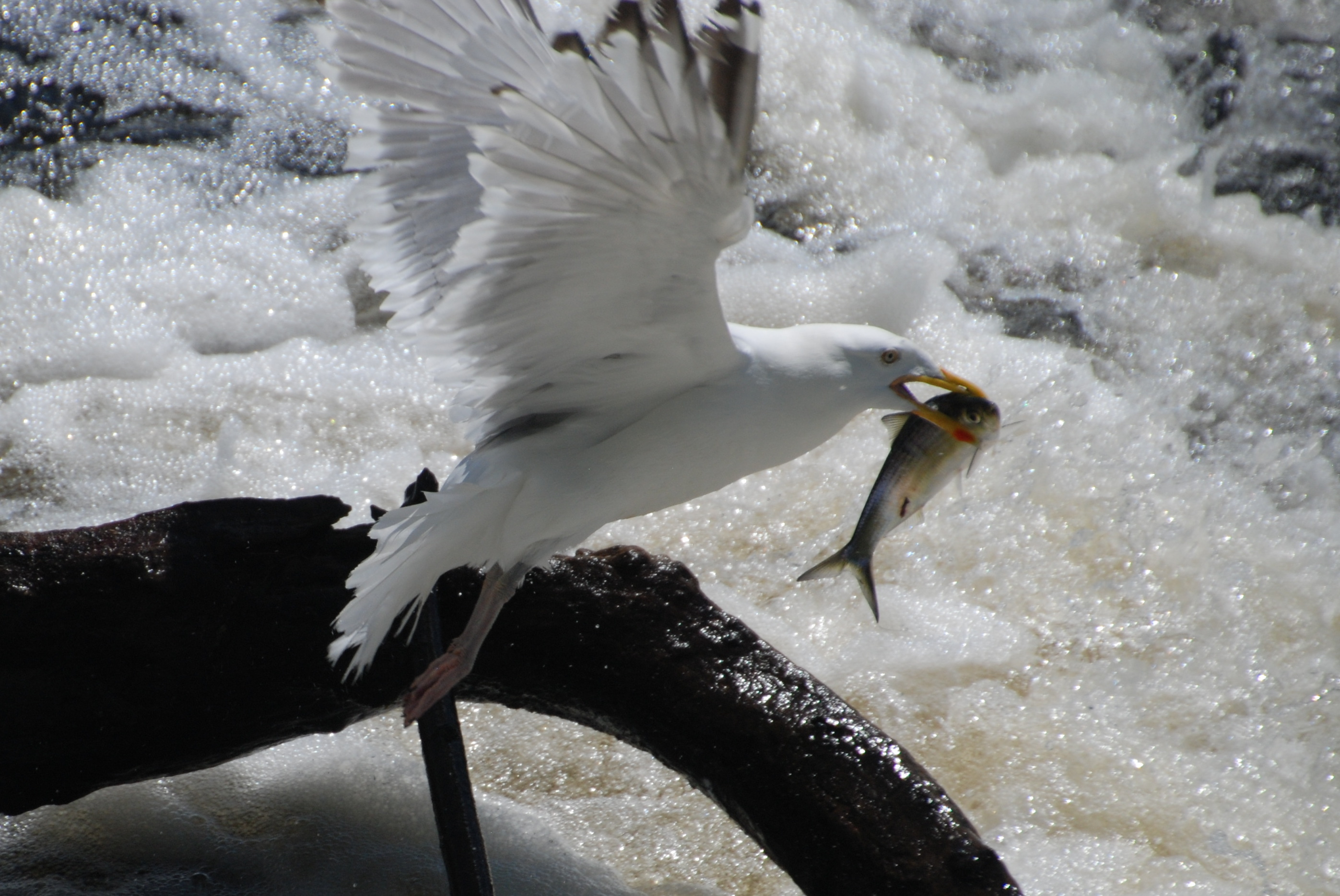 A seagull makes off with a herring it caught below the Watertown dam (Watertown, MA, USA)